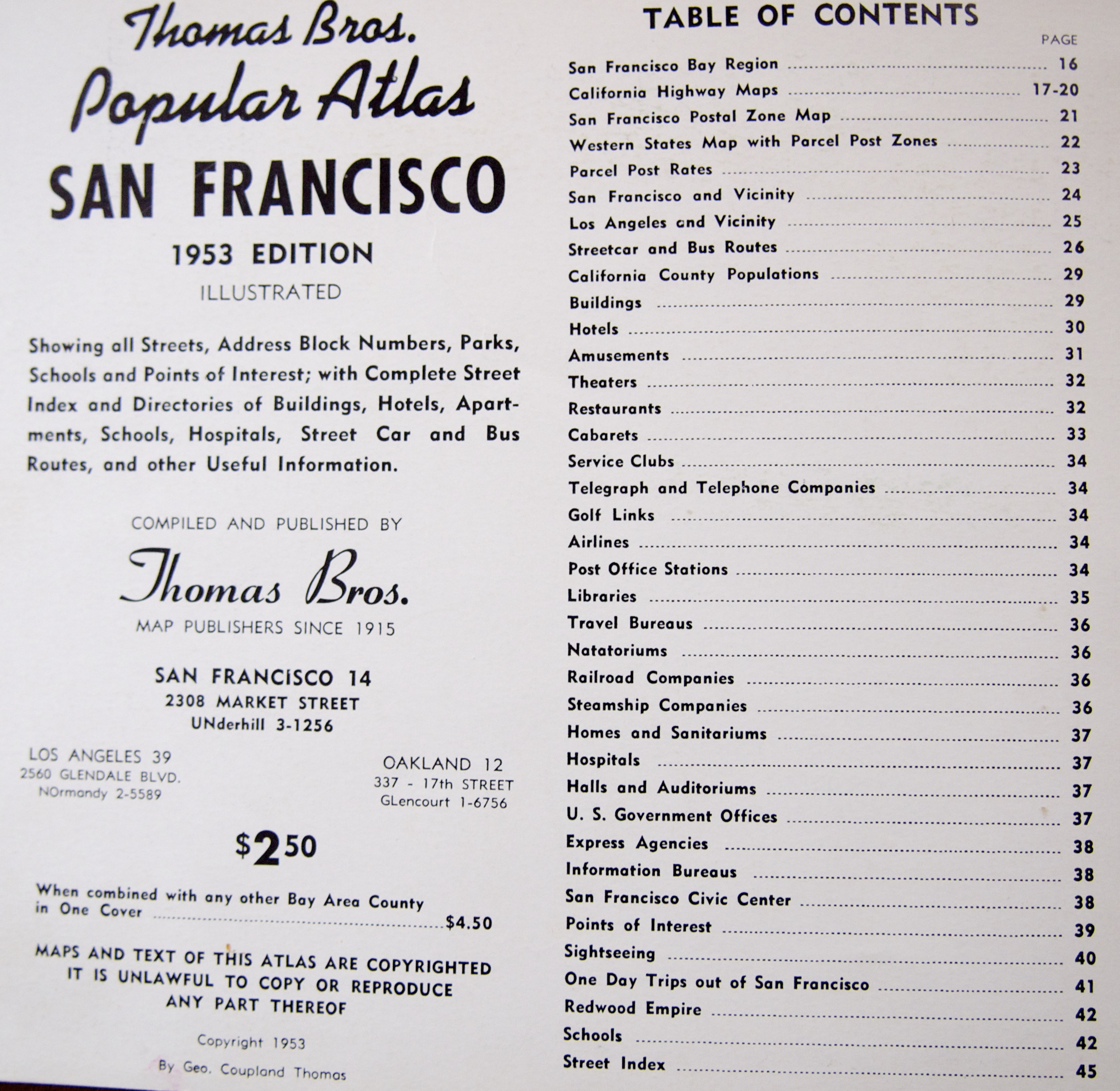 Title page from San Francisco atlas of 1953